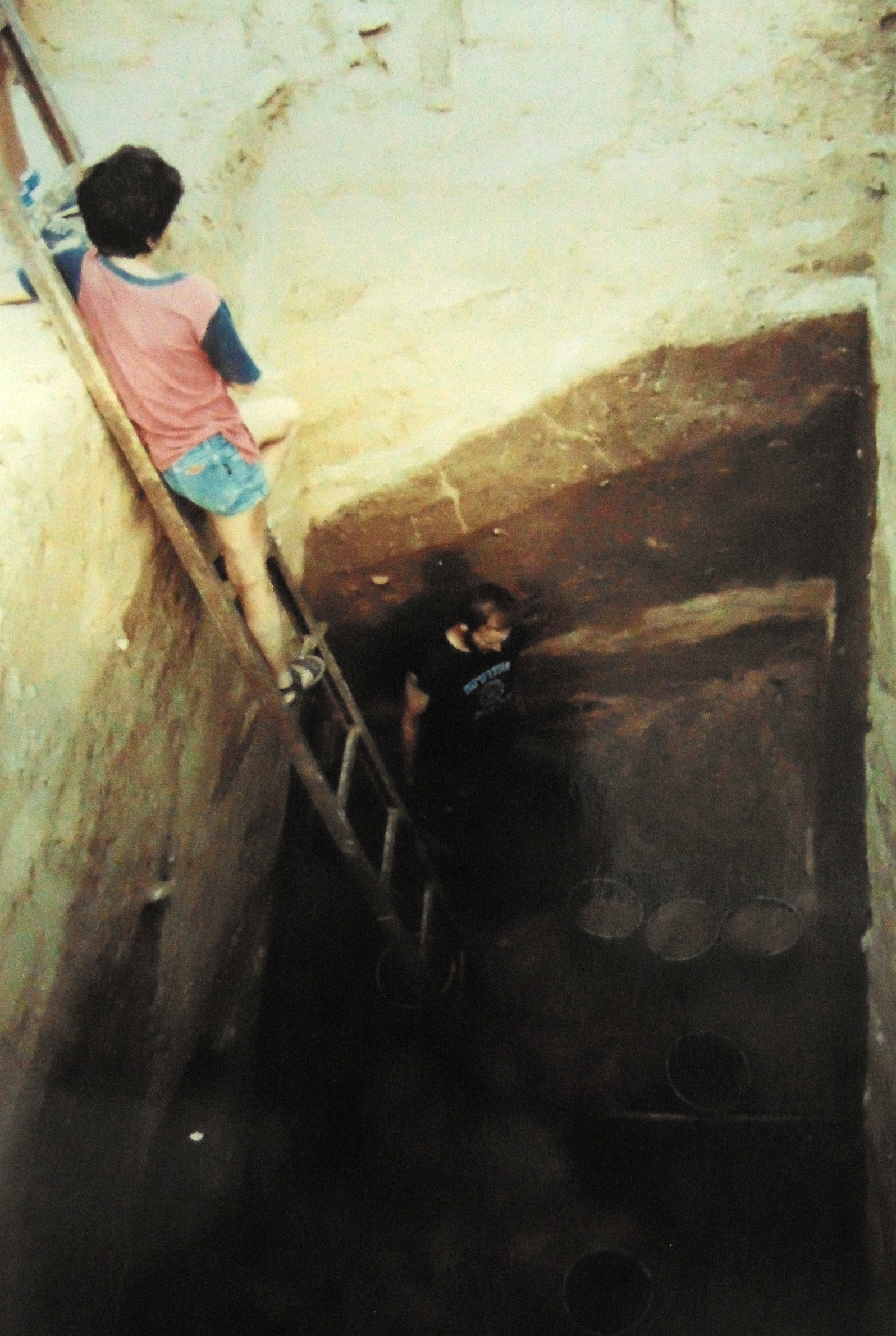 A 7 meter deep excavation was done in the 1980 season, to locate the lower strata of an expected fortification. Note the change from sand to darker soil. It was possible to work at the bottom of the hole for about 10 minutes before needing to be replaced, due to the heat and lack of wind.